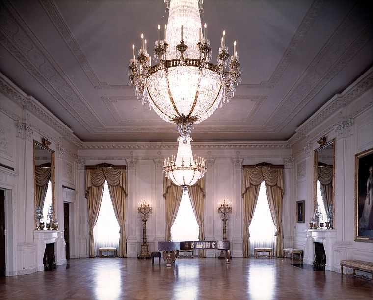 The East Room as designed by Stéphane Boudin during the administration of John F. Kennedy.